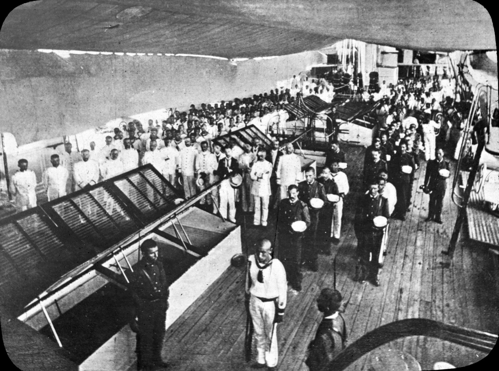 Crew of Reina Cristina in prayer before battle Apl. 24